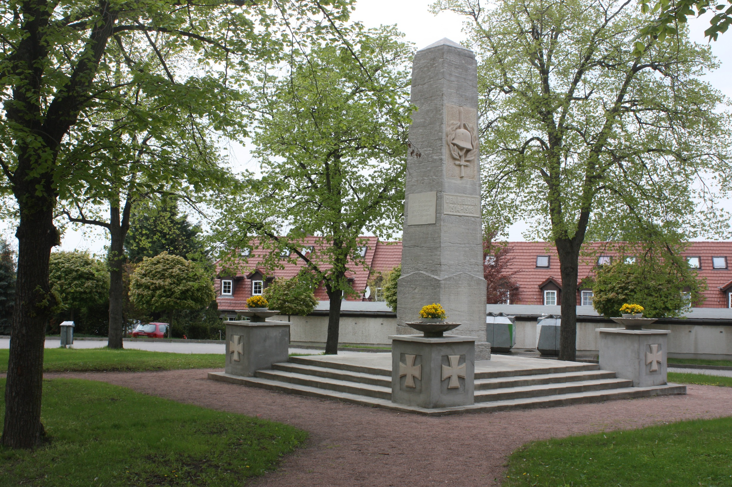 Bad Dürrenberg, the war memorial